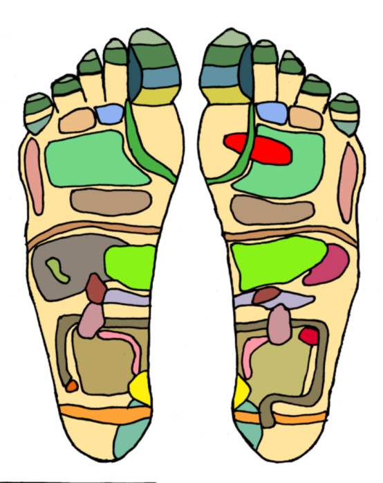 This shows the reflex zones found on the sole of the feet.